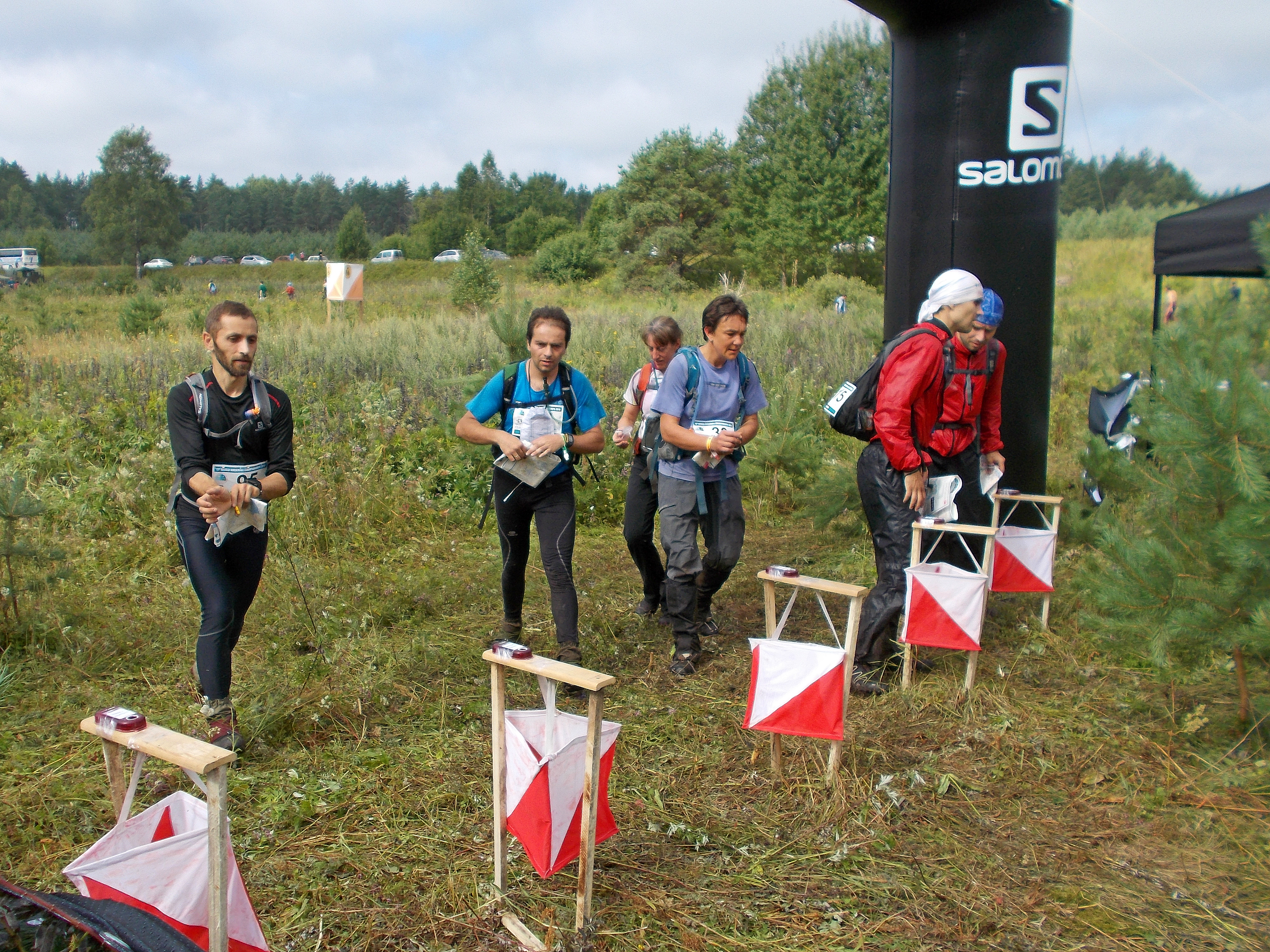 Teams at a finish of the 11th World Rogaining Championships 2013 (26-27 July 2013, Pskov Oblast, Russia)